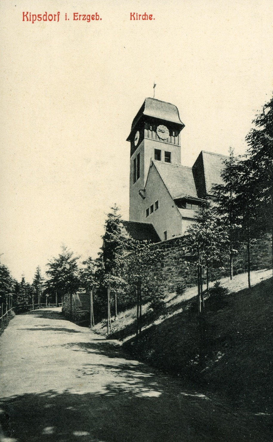 This postcard is from publisher Brück & Sohn in Meißen ( This postcard has a unique number 11451 and is available in a higher resolution at the publisher. This images was uploaded in a cooperation project between Wikipedians and the publisher.